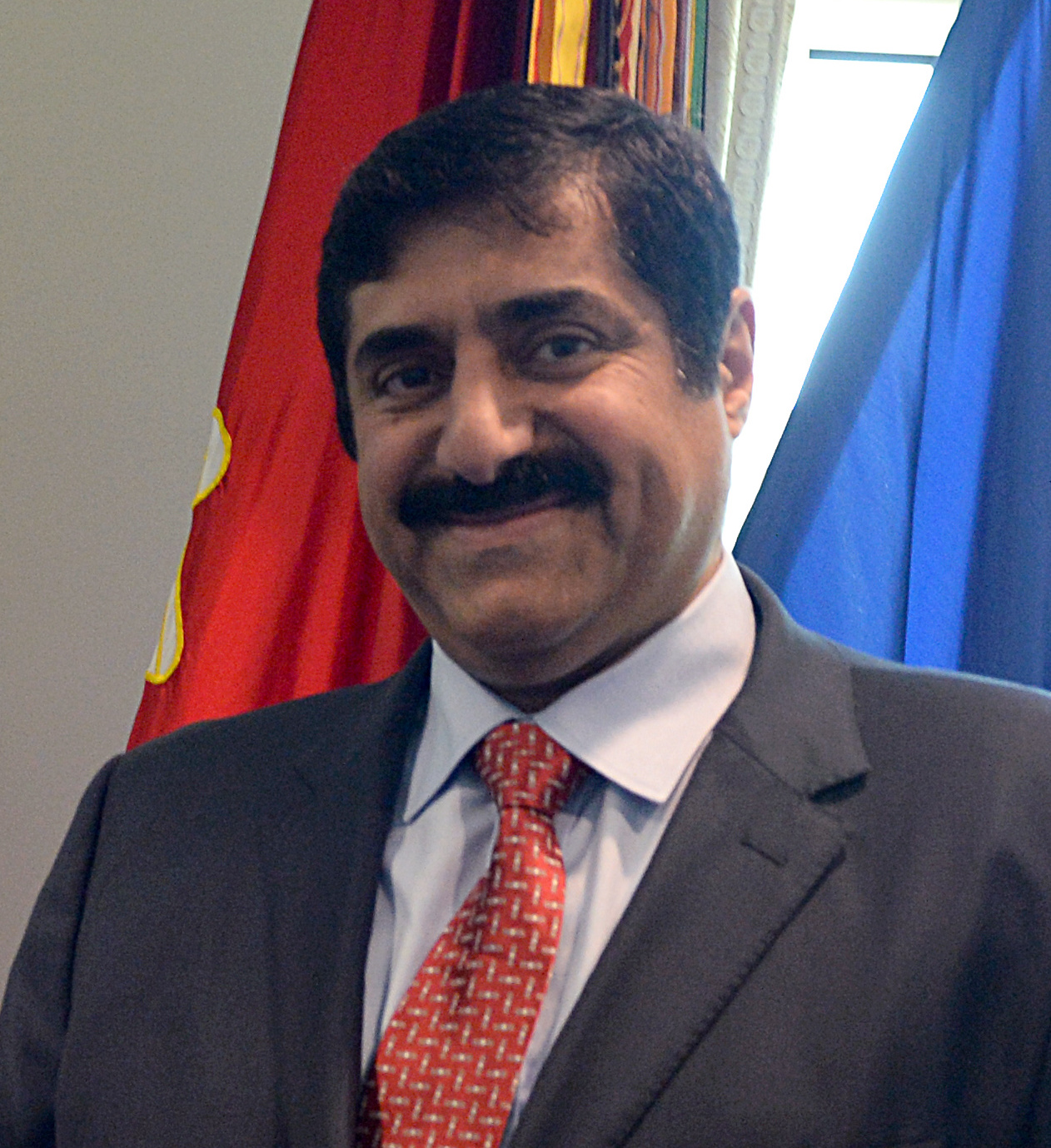 Secretary of Defense Ash Carter shakes hands with Qatar's Minister of State for Defense Affairs Hamad bin Ali Al Attiyah at the Pentagon, Oct. 23, 2015.(DoD photo by U.S. Army Sgt. First Class Clydell Kinchen)(Released)